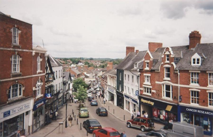 View of Ross-on-Wye as seen from the Market House, photograph taken by User:Carlwev May 2004 with disposable camera.